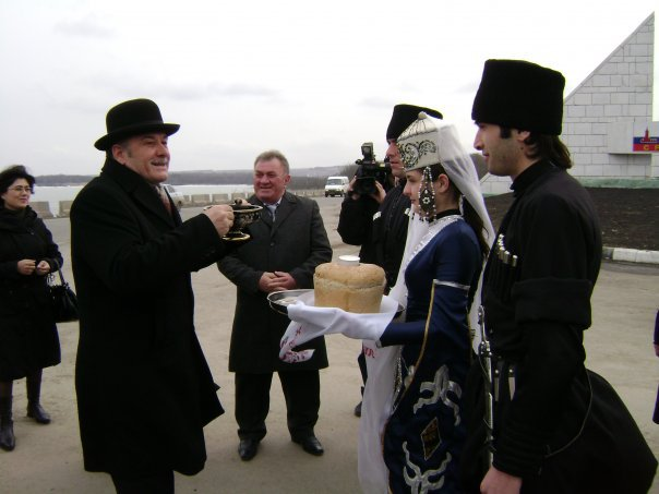 The famous craftsman Ghoshieve Zamudin during a cultural Circassians ceremony- North Caucasus - 2010